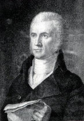 William Richardson Davie (1756-1820).